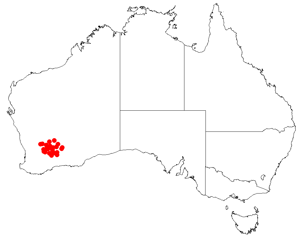 Persoonia inconspicua Occurrence data downloaded from Australasian Virtual Herbarium on 30 October 2018 from